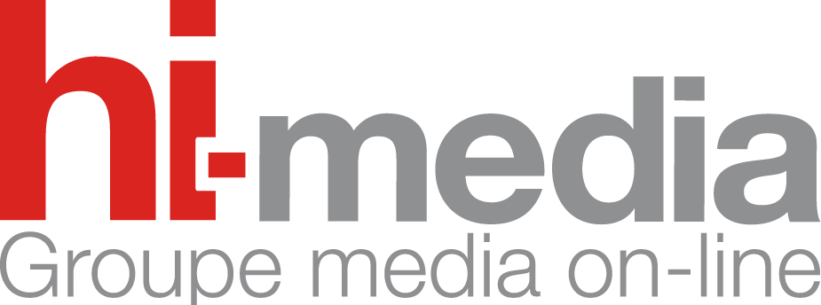 hi-media logo